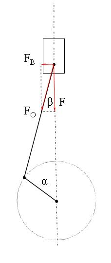 Piston mechanism and forces in it